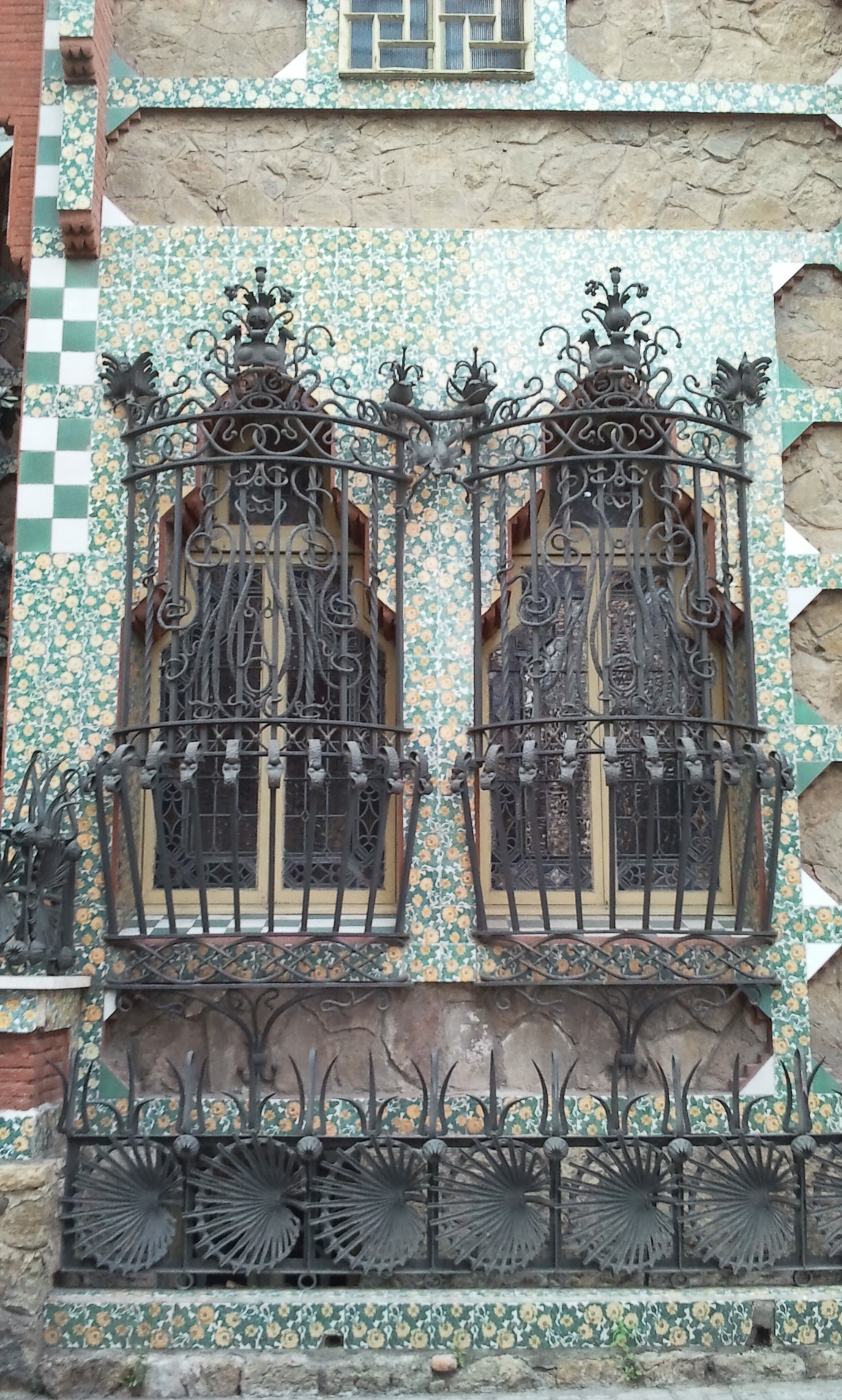 Detail of two windows of Casa Vicens